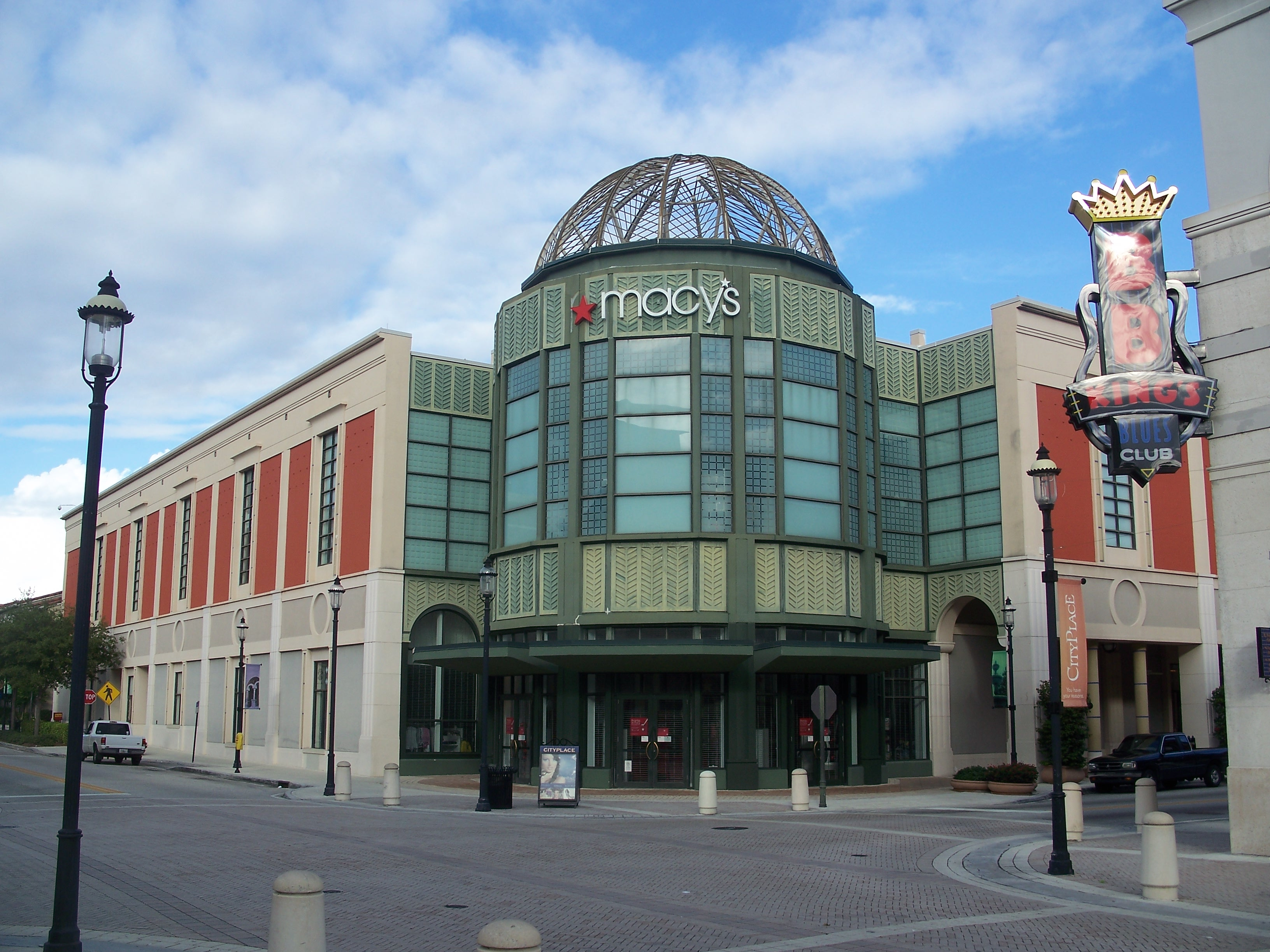 West Palm Beach, Florida: Macy's: Built on the site of the old Hibiscus Apartments